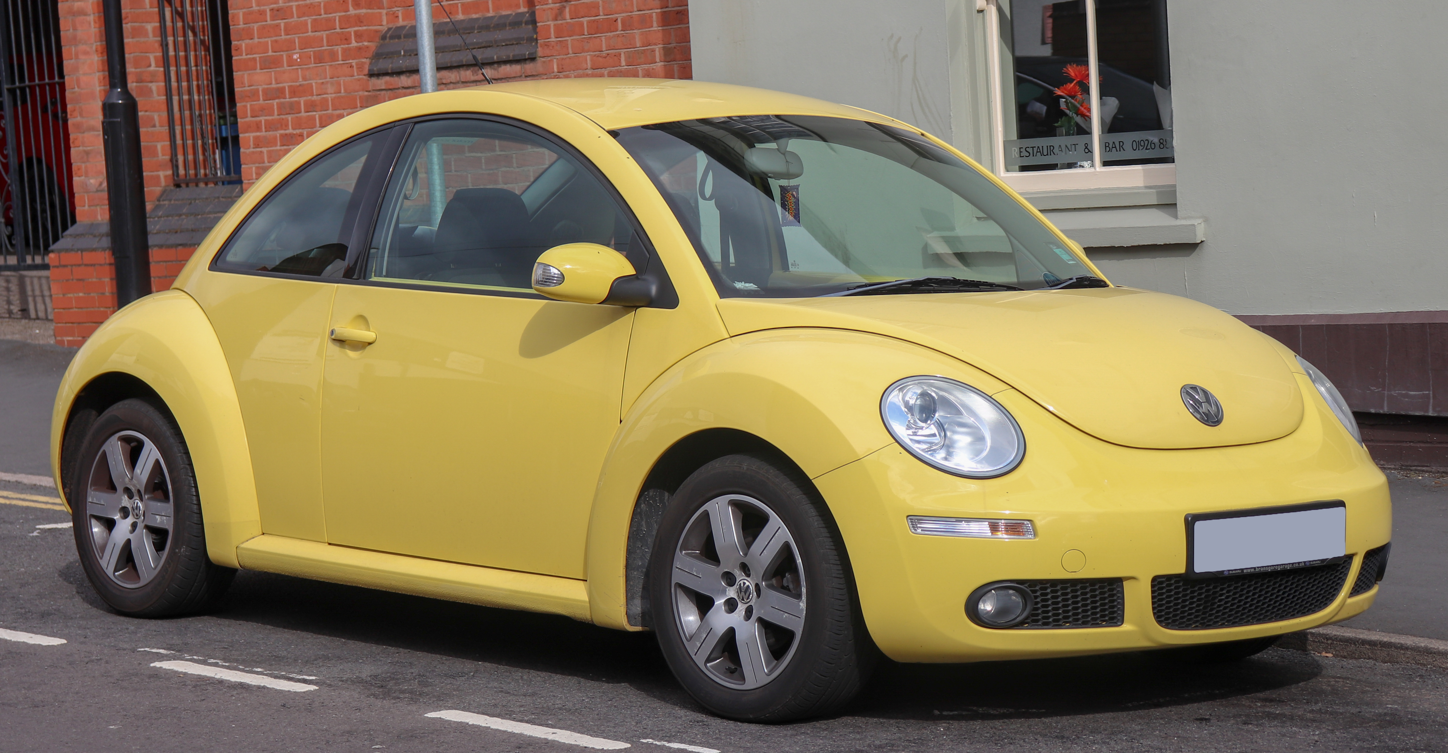 2006 Volkswagen New Beetle Luna 1.6 Front Taken in Leamington Spa